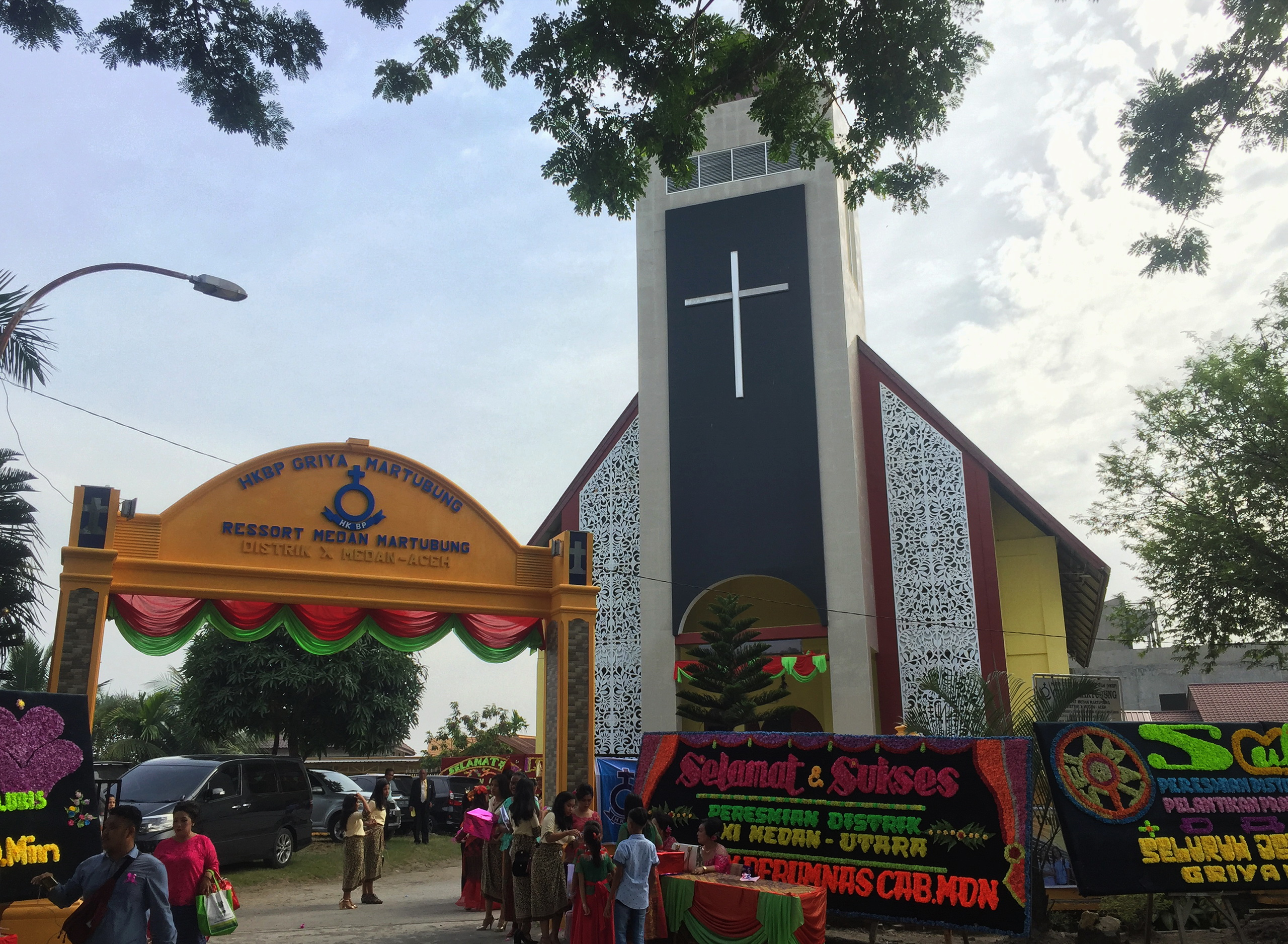 HKBP Griya Martubung, church in Martubung (Besar, Kec. Medan Labuhan, Medan)